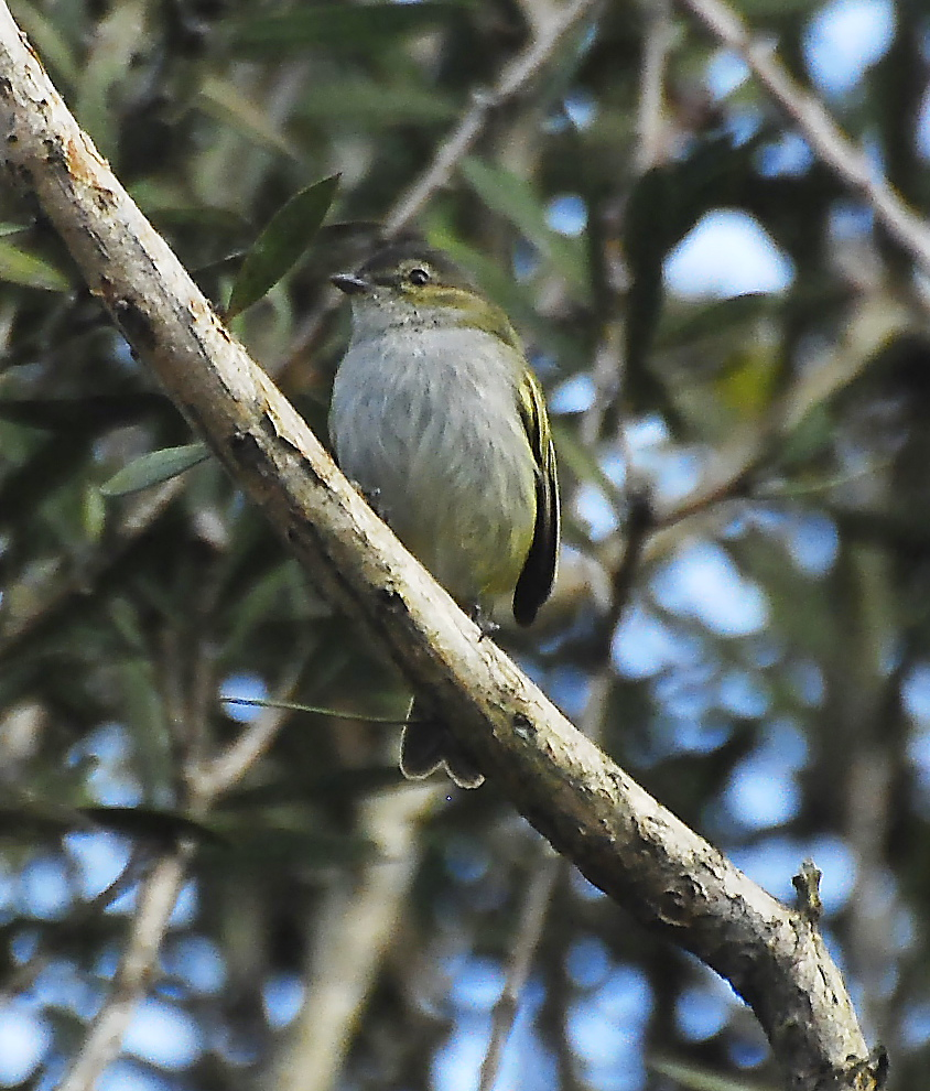 Paltry Tyrannulet (Zimmerius vilissimus) at the Jardin Lankester Botanical Garden, Cartago, Costa Rica, 080228. According the range this is Zimmerius vilissimus parvus or just Zimmerius parvus.